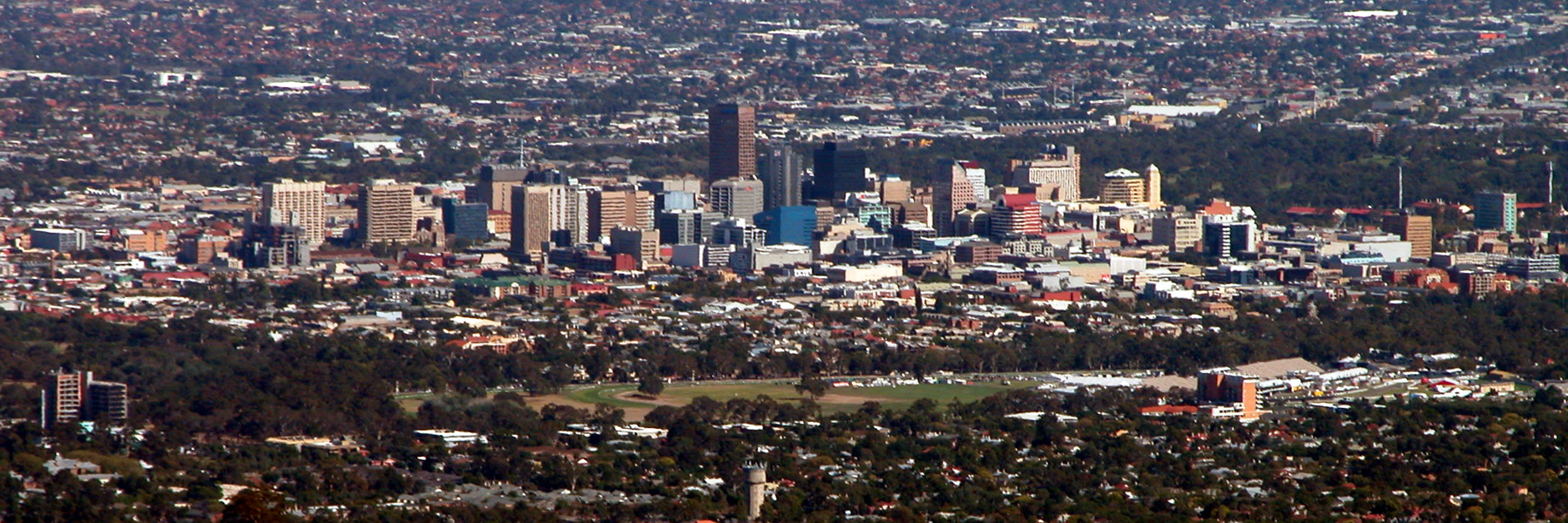 The centre of the city of Adelaide in South Australia as seen from the Mount Lofty Summit. Edited with Photoshop.